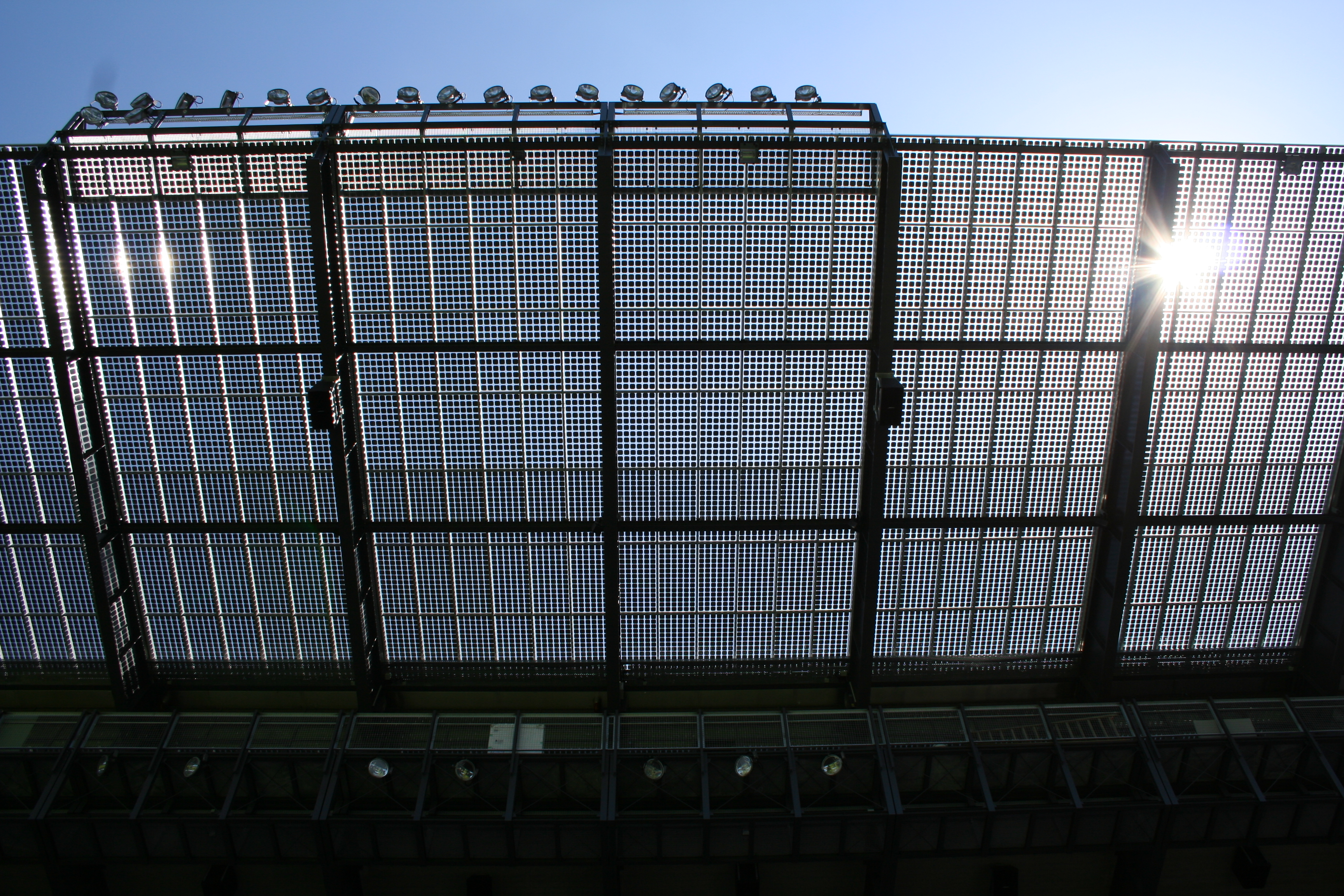 Roof structure (with solar cells) of the new grand stand of the Bielefelder Alm.